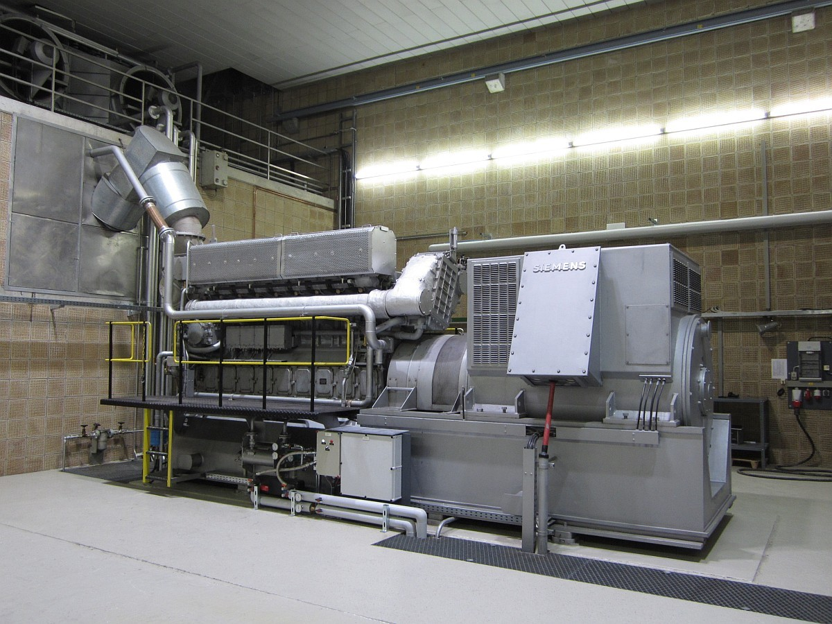 Emergency power system in a water purification plant in Germany